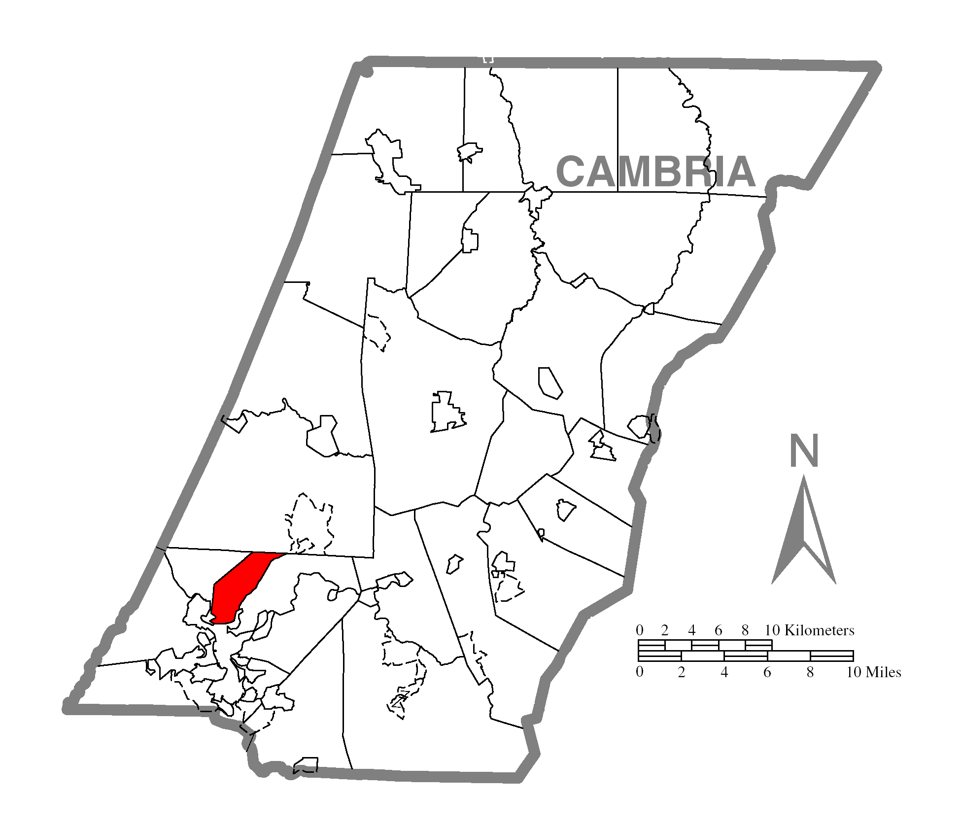 A map of Cambria County showing Middle Taylor Township, Pennsylvania (alternate) highlighted on the map.